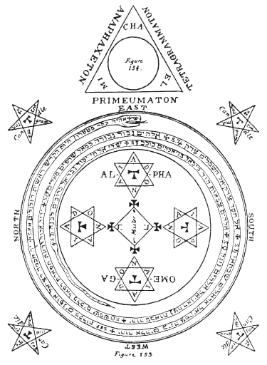 A solomonic magic circle with a triangle of conjuration in the east. This would be drawn on the ground, and the operator would stand within the protection of the circle while a spirit was conjured into the triangle